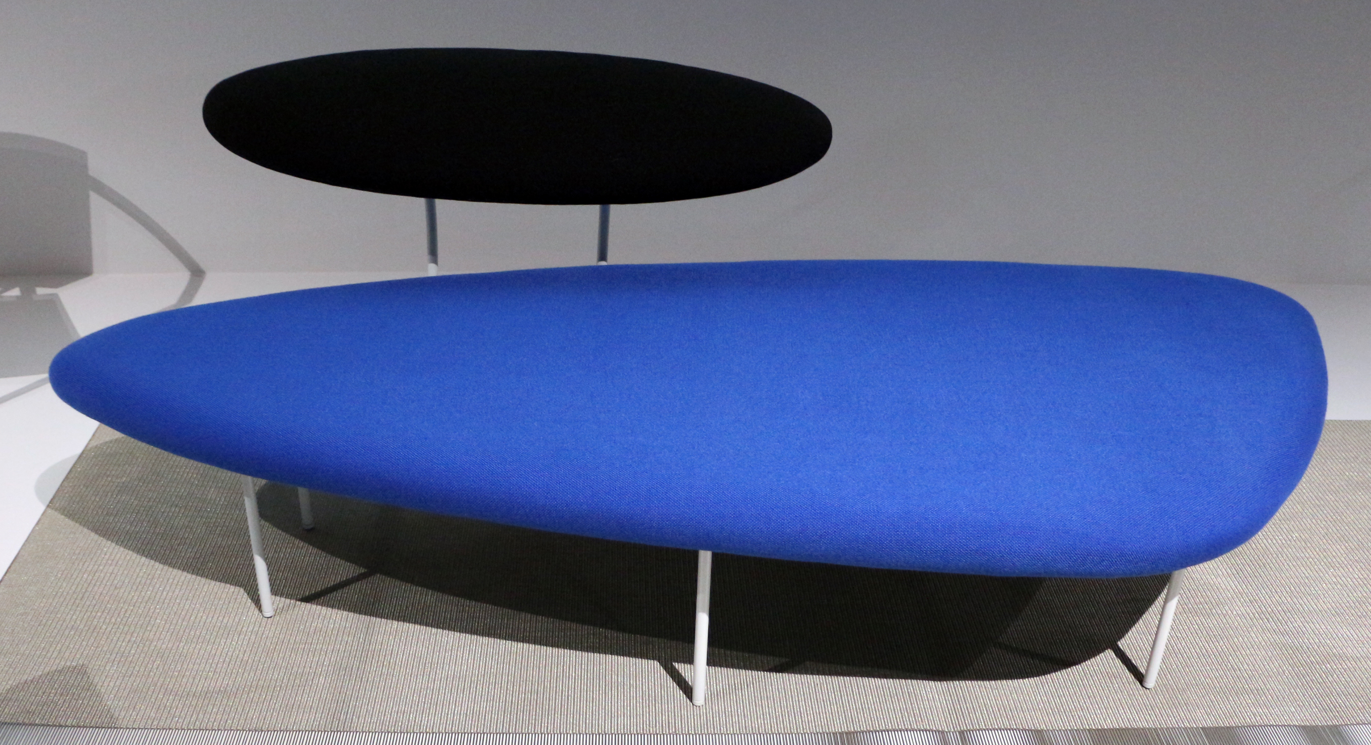 Decorative arts in the Musée national d'art moderne